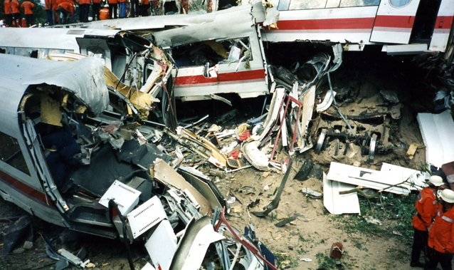 Eschede train disaster. This image was taken with a small hand held photo camera and shows the severe destruction of the rear passenger cars that were pushed into each other and into a road bridge.